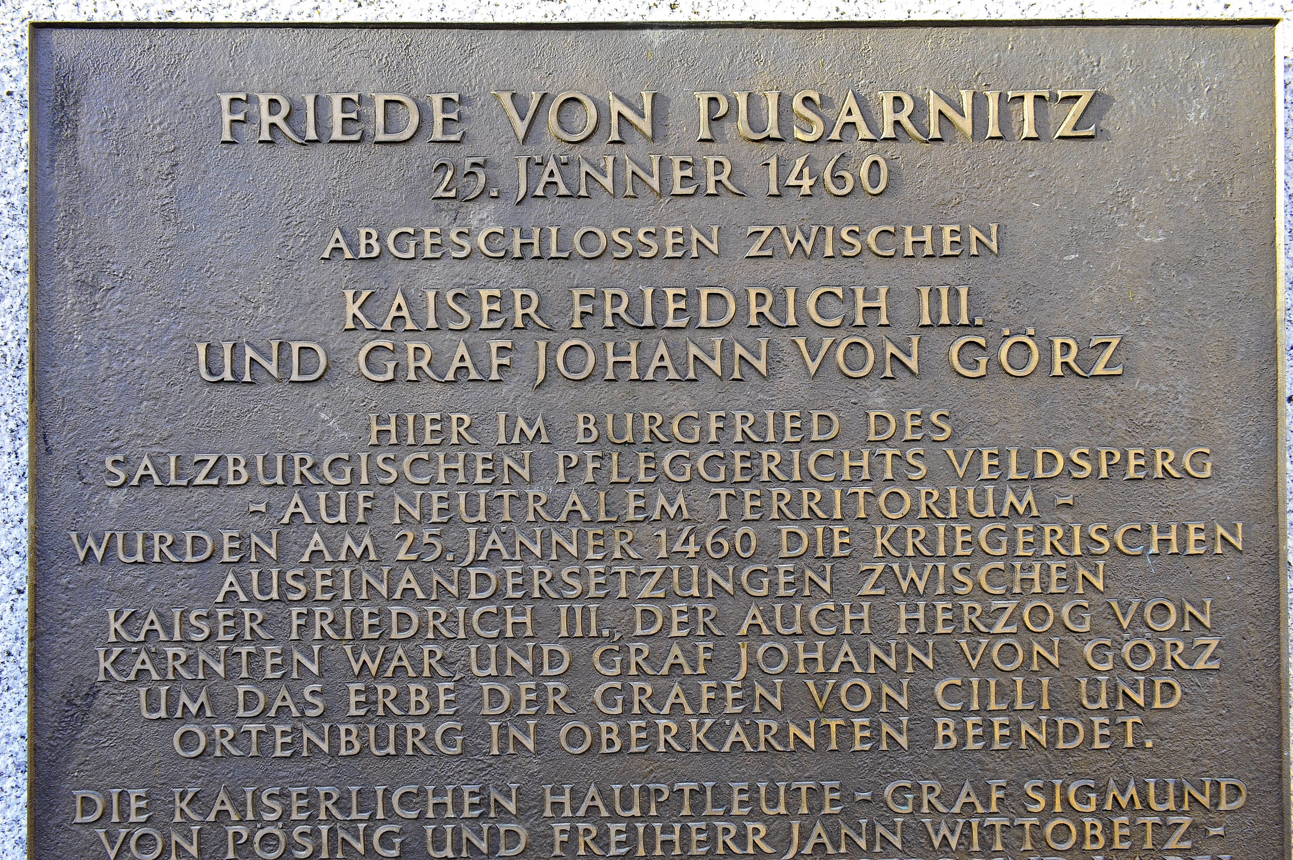 Upper part of the memorial plaque for the "Peace of Pusarnitz" (January 25th, 1460) at Pusarnitz, municipality Lurnfeld, district Spittal an der Drau, Carinthia / Austria / EU